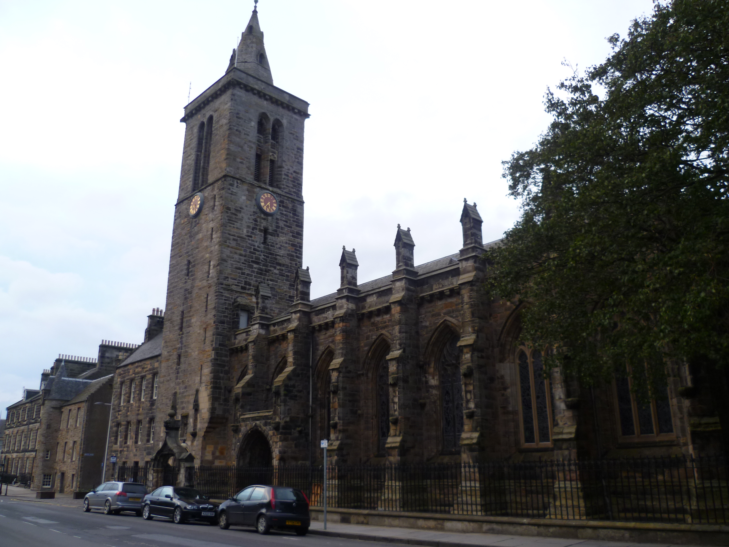 It was in front of the entrance to St. Salvator's Chapel in in 1528 that Scotland's first Lutheran preacher, Patrick Hamilton, was burned at the stake after being tried as a heretic on the orders of Archbishop James Beaton. After the execution one of Beaton's retinue is alleged to have counselled him, "If ye will burn them, let them be burned in deep cellars, for the reek [smoke] of Master Patrick Hamilton has infected as many as it blew upon." The lesson was lost on his nephew, Cardinal David Beaton. Eighteen years later, in 1546, he condemned the Protestant preacher George Wishart to the same fate, an act for which he was murdered in a revenge attack by a group of angry Protestants. These events signalled the start of the open hostilities that culminated in the Scottish Reformation of 1560.